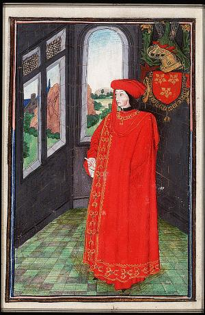 Statuts, Ordonnances et Armorial de l'Ordre de la Toison d'Or (Statutes, Ordonnances and armorial of the Order of the Golden Fleece) Place of origin, date: Southern Netherlands; 1473. Added sections: Southern Netherlands; 1478 or shortly after and 1491 or shortly after Material: Vellum, ff. 86, 249x187 (167x106) mm, 23 lines, littera cursiva (lettre bourguignonne). French. Binding: 18th-century brown leather Decoration: 1 full-page miniature (170x115 mm) with border decoration; 92 miniatures (185/155x120/100 mm); 1 historiated initial (80x90 mm) with border decoration; decorated initials with border decoration (ff., Added section: miniatures ; 4 drawings for miniatures (not finished) Provenance: Presented in 1473 by Gilles Gobet, King of Arms of the Order of the Golden Fleece, to Charles the Bold, Duke of Burgundy and the other Knights during the Chapter of the Order held at Valenciennes; Treasure of the Golden Fleece, Brussls; taken away by the Treasurer C.-F. Humyn (d. 1735) or his daughter C.Ch. de Corte; by legacy to her daughter M.-L. de Corte, wife of Ph.-E. de Poederlé; purchased in 1781 at the Poederlé sale by G.-J- Gérard of Brussels; acquired in 1832 as part of the Gérard collection (no. A 27)